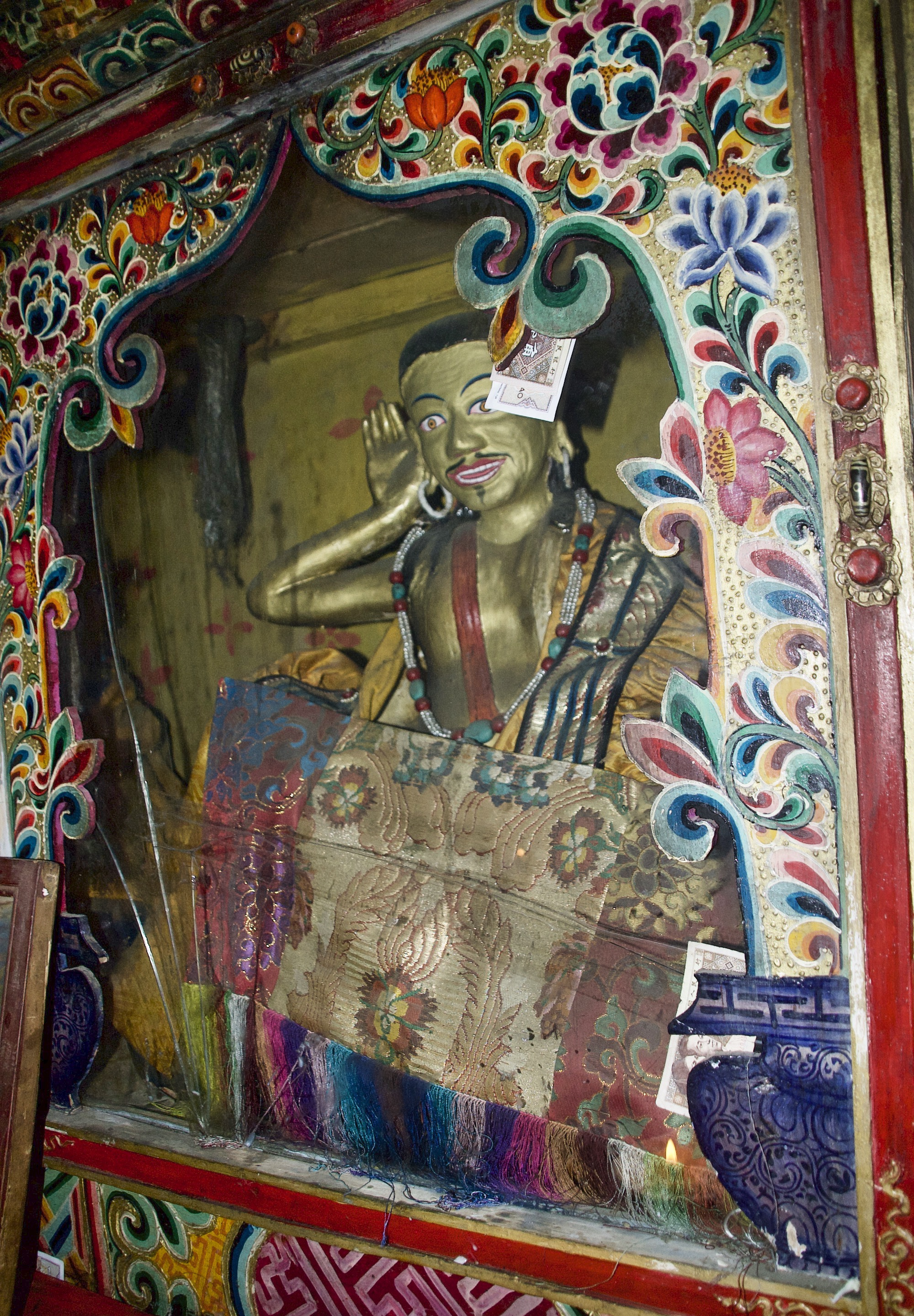 A statue of Milarepa in Tirthapuri gompa, among hot water sources, Western Tibet (near Moincêr, Mencixiang, Menshi), just out of the road from Kailash to Ngari (G219), before the left turn to Guge Kingdom (Zanda, Tholing, Tsaparang)